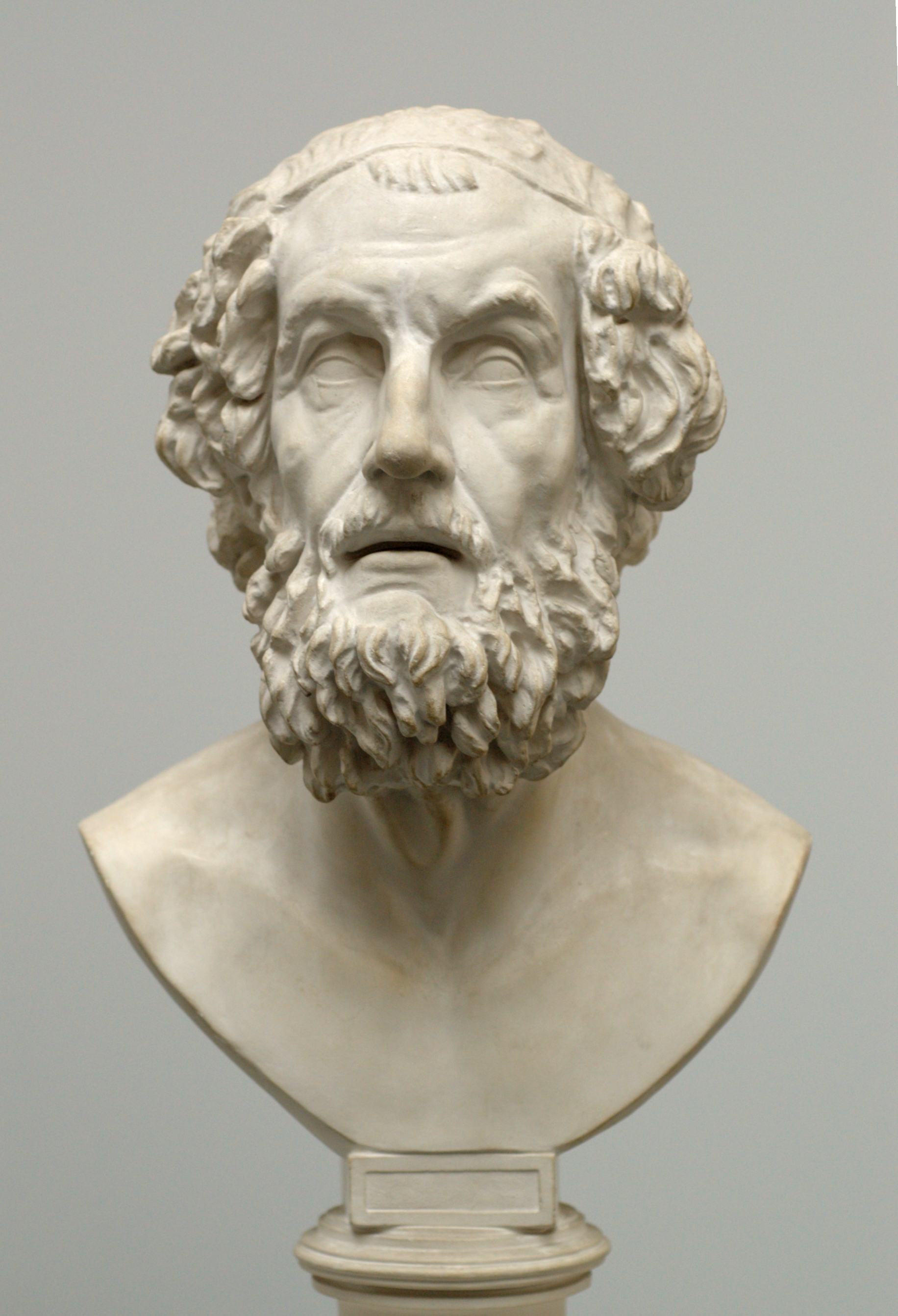 Bust of Homer, hellenistic period. Modern copy after an original in the National Archeological Museum of Naples (see below).